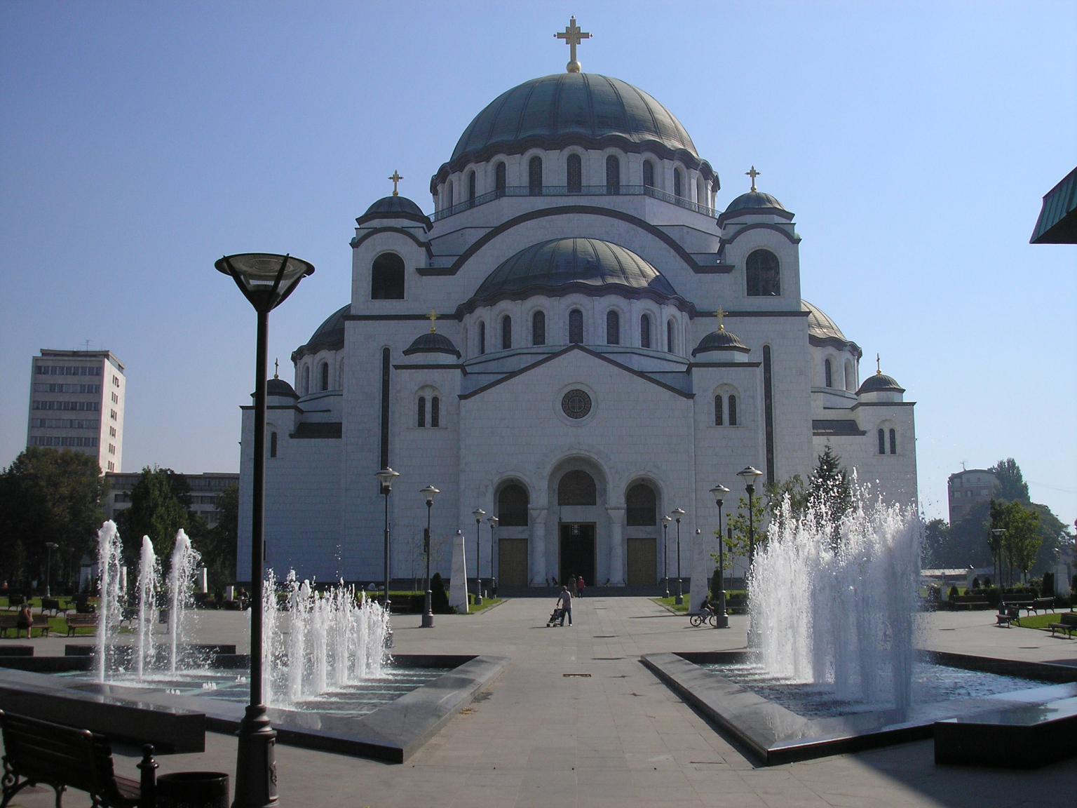 Temple of Saint Sava in September 2006